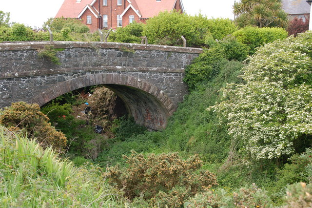 Old railway, Donaghadee. The Belfast & County Down Railway (BCDR) operated a line from Comber via Newtownards to Donaghadee. The BCDR was nationalised in 1948 becoming part of the Ulster Transport Authority ("UTA" sometimes called "Ulster's Terrible Affliction"). The UTA closed the line in April 1950. In Donaghadee most of the line has disappeared into a park and car park. There must be a reason but this short section (about 200/300 yards) of cutting and bridge still survives (56 years after closure) in The Commons having escaped commercial or municipal development. Continue to 755784.